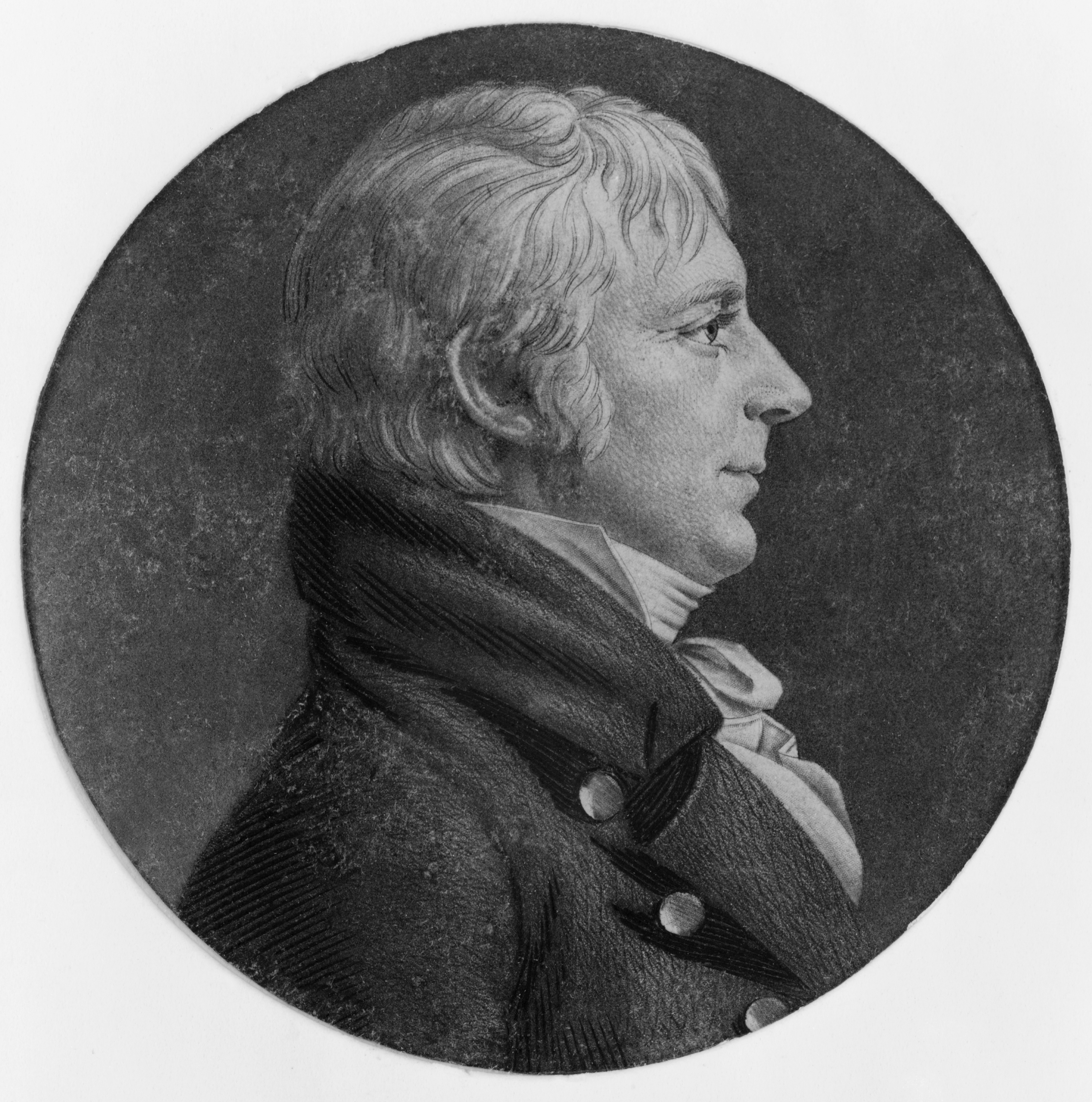 Engraving of Killian K. van Rensselaer (June 9, 1763 – June 18, 1845), United States Congressman from New York